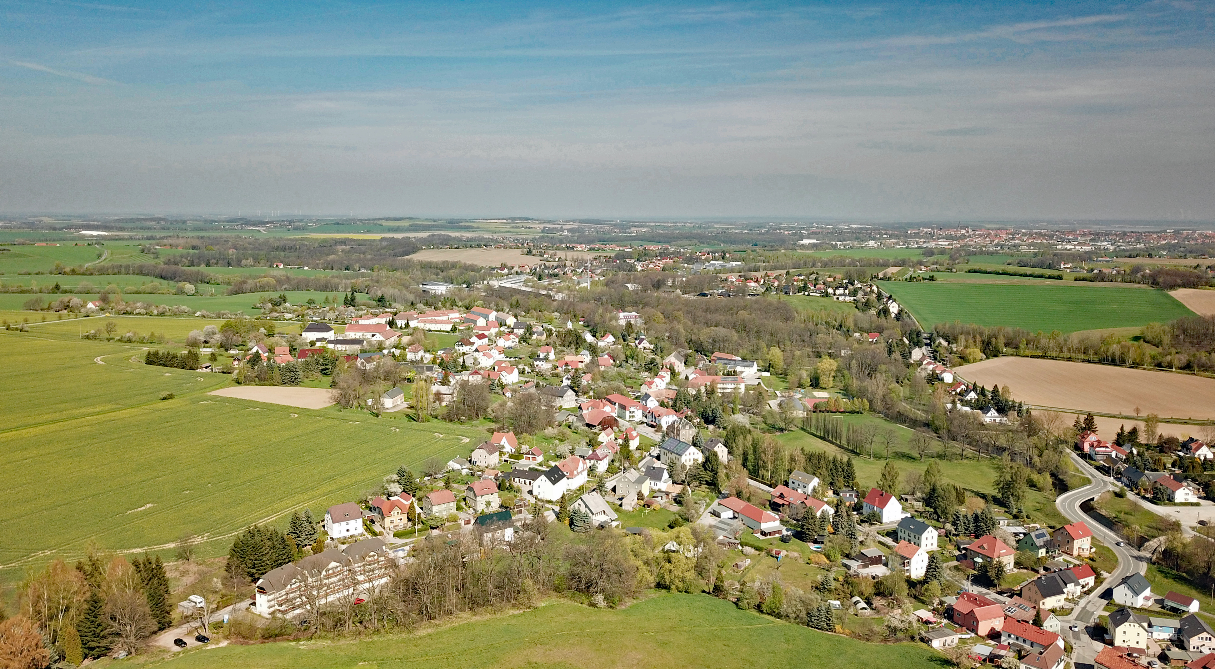 Obergurig, Saxony, Germany Hornjoserbsce: Powětrowy wobraz Hornjeje Hórki